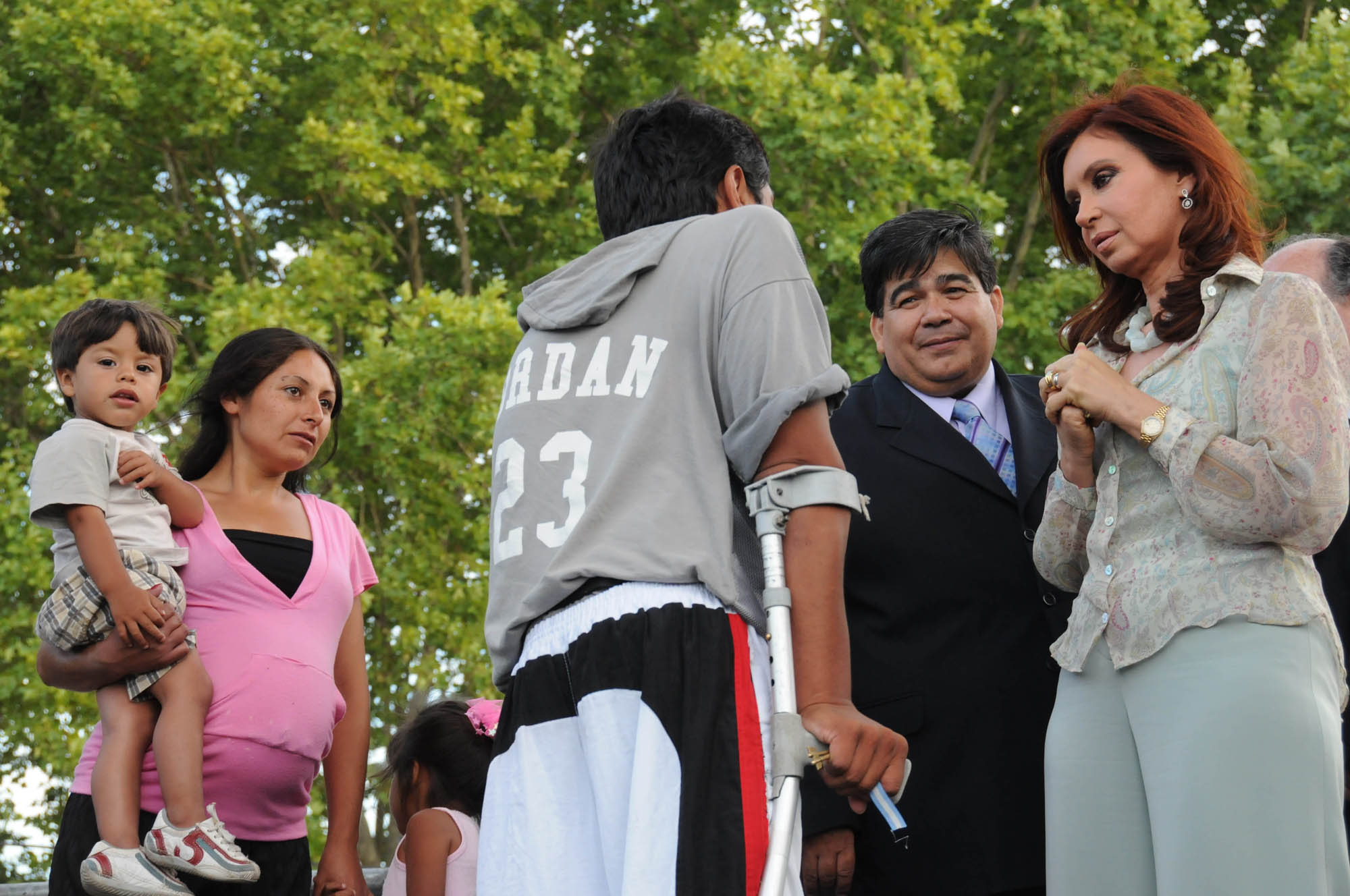 People of José C. Paz city, western Greater Buenos Aires, the Mayor of José C. Paz Partido, Mario Alberto Ishii and the President of Argentina, Cristina Fernández de Kirchner.